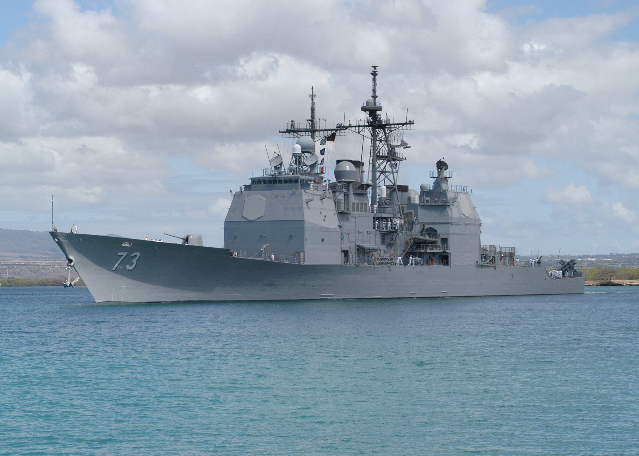 Pearl Harbor, Hawaii (Sep. 3, 2003) -- USS Port Royal (CG 73) departed on deployment as part of Expeditionary Strike Group One (ESG-1). An ESG constitutes a new naval strike force designed to equip amphibious forces with added firepower and operational capabilities. The seven ships of ESG-1 include, USS Peleliu (LHA 5), USS Germantown (LSD 42), USS Jarrett (FFG 33), USS Ogden (LPD 5), USS Port Royal (CG 73), USS Decatur (DDG 73), and USS Greeneville (SSN 772), along with the Marines of the 13th Marine Expeditionary Unit (Special Operations Capable). U.S. Navy photo by Photographer's Mate 2nd Class Johnnie R. Robbins. (RELEASED)